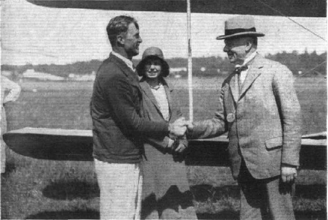 Scott Flies Home in easy stages, C.W.A. Scott with his Wife and Lord Amulree